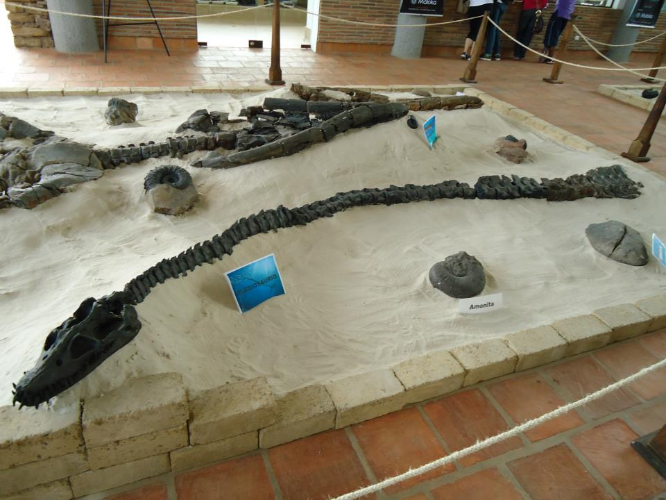 Neck and head of a plesiosaur (low), and a skeleton of a pliosaurid (top). Centro de Investigaciones Paleontólogicas, Villa de Leyva, Colombia.